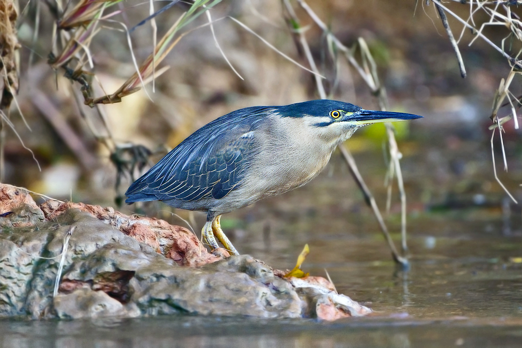 Striated Heron (Butorides striata macrorhyncha), Daintree River, Queensland, Australia